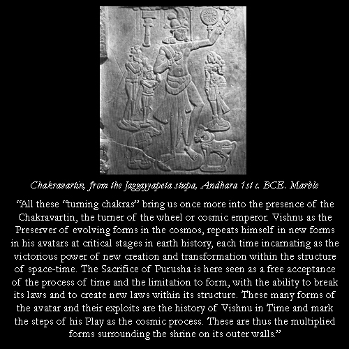 Jaggayyapeta Stupam, Krishna district, Andhra Pradesh